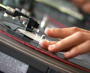 Scratching 2000 DJ Stylewarz live